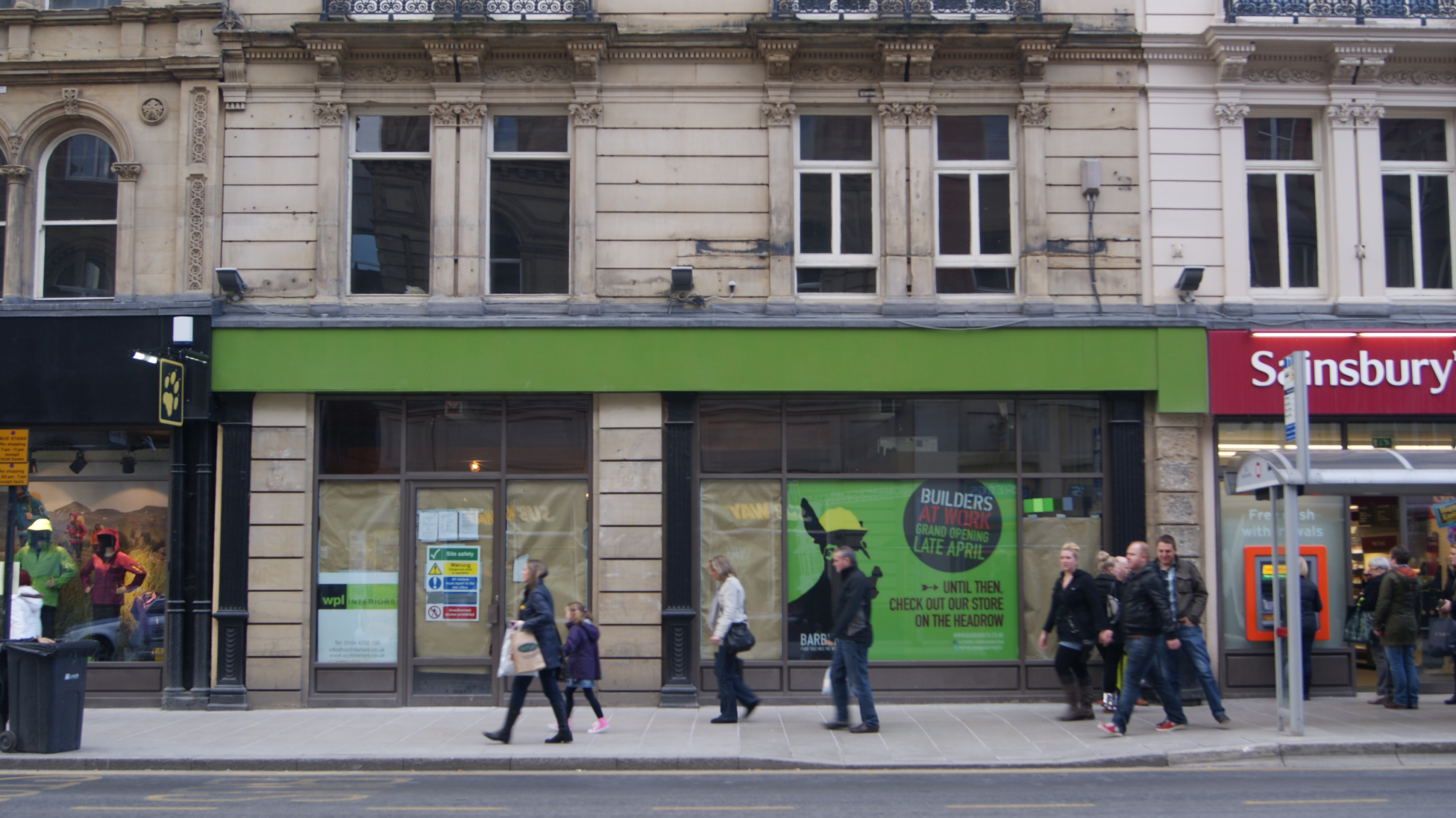 Barburito, Boar Lane, Leeds, West Yorkshire. There has been another branch on the Headrow for a few years and it seems a second is opening. Taken on the afternoon of Saturday the 30th of March 2013.